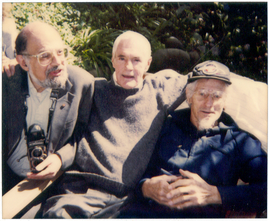 Polaroid photograph taken Easter Sunday 1991, at the home of Dr. Oscar Janiger. From left to Allen Ginsberg, Timothy Leary, and John C. Lilly, M.D.